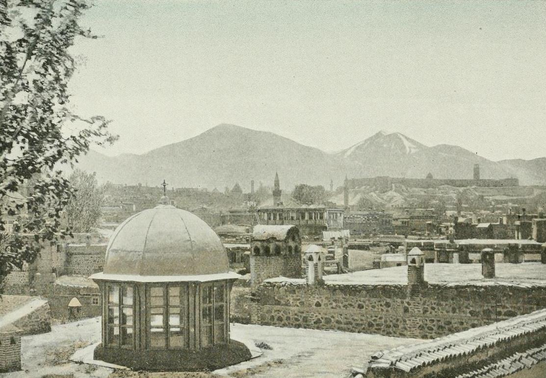 from H. F. B. Lynch Armenia, travels and studies, 1901